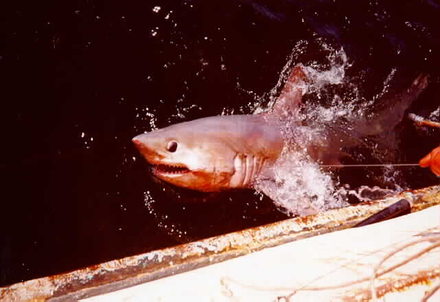 Porbeagle (Lamna nasus) hooked on a line.